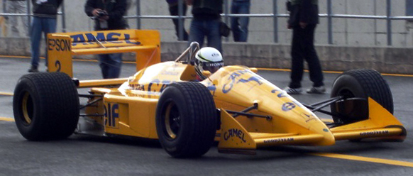 Lotus 100T, owned by Honda (Honda Collection Hall, Motegi), tested in 2007.